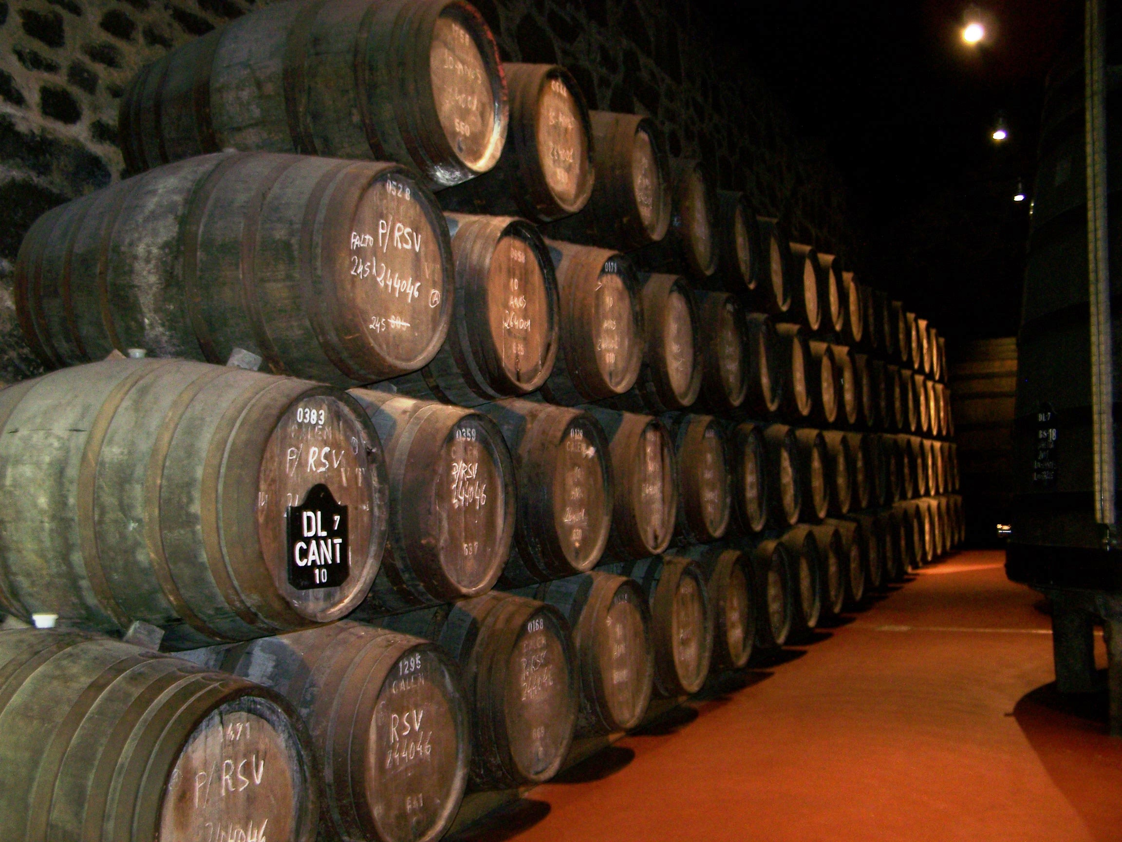 The caves of the port wine, here the cave of Calém